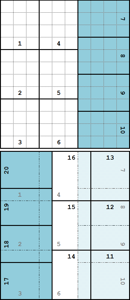 Packaging of standardized beer bottle crates on CHEP pallet, view from above. Top half: the first layer. Bottom half: the first two layers, with indication of the bottom layer.